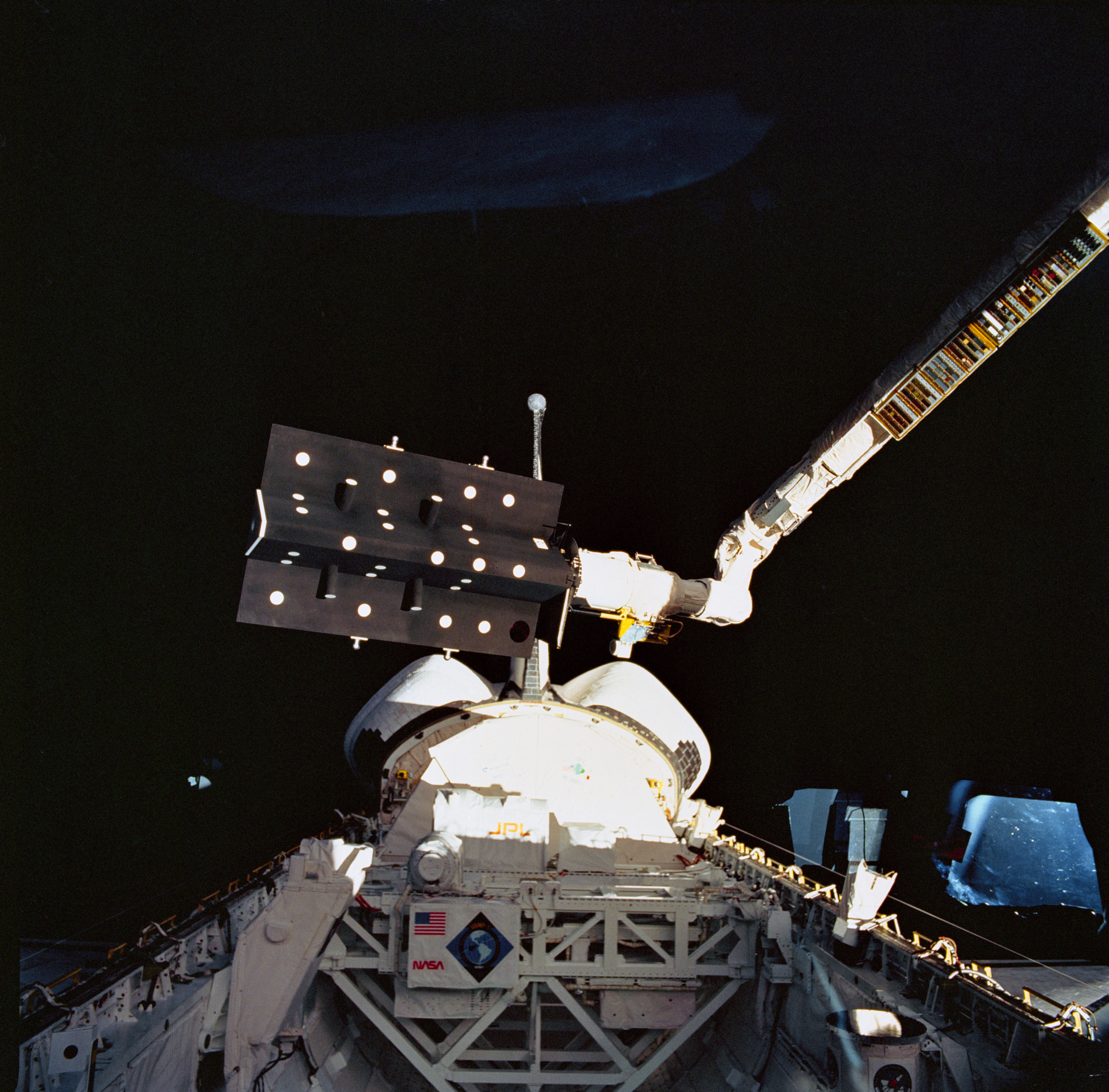 CANEX-2 is grappled by the RMS during STS-52. In operation during STS-52 above the payload bay (PLB) of Columbia, Orbiter Vehicle (OV) 102, is the Canadian Experiment 2 (CANEX-2) Space Vision System (SVS) experiment. Target dots have been placed on the Canadian Target Assembly (CTA), a small spacecraft, in the grasp of the Canadian-built remote manipulator system (RMS) arm. With the shuttle's closed circuit television (CCTV) system, the payload specialist monitors the movement of the 4-foot by 7-foot by 1.5-foot deployed spacecraft, whose surface is covered with many sets of dots of know spacing. As the satellite moved via the RMS, the SVS computer measured the changing position of the dots and provided real-time television display of the location and orientation of the CTA. This type of information is expected to help an operator guide the RMS or the Mobile Servicing System (MSS) of the future when berthing or deploying satellites. Also visible on the RMS is another CANEX-2 payload, the Material Exposure in Low Earth Orbit (MELEO